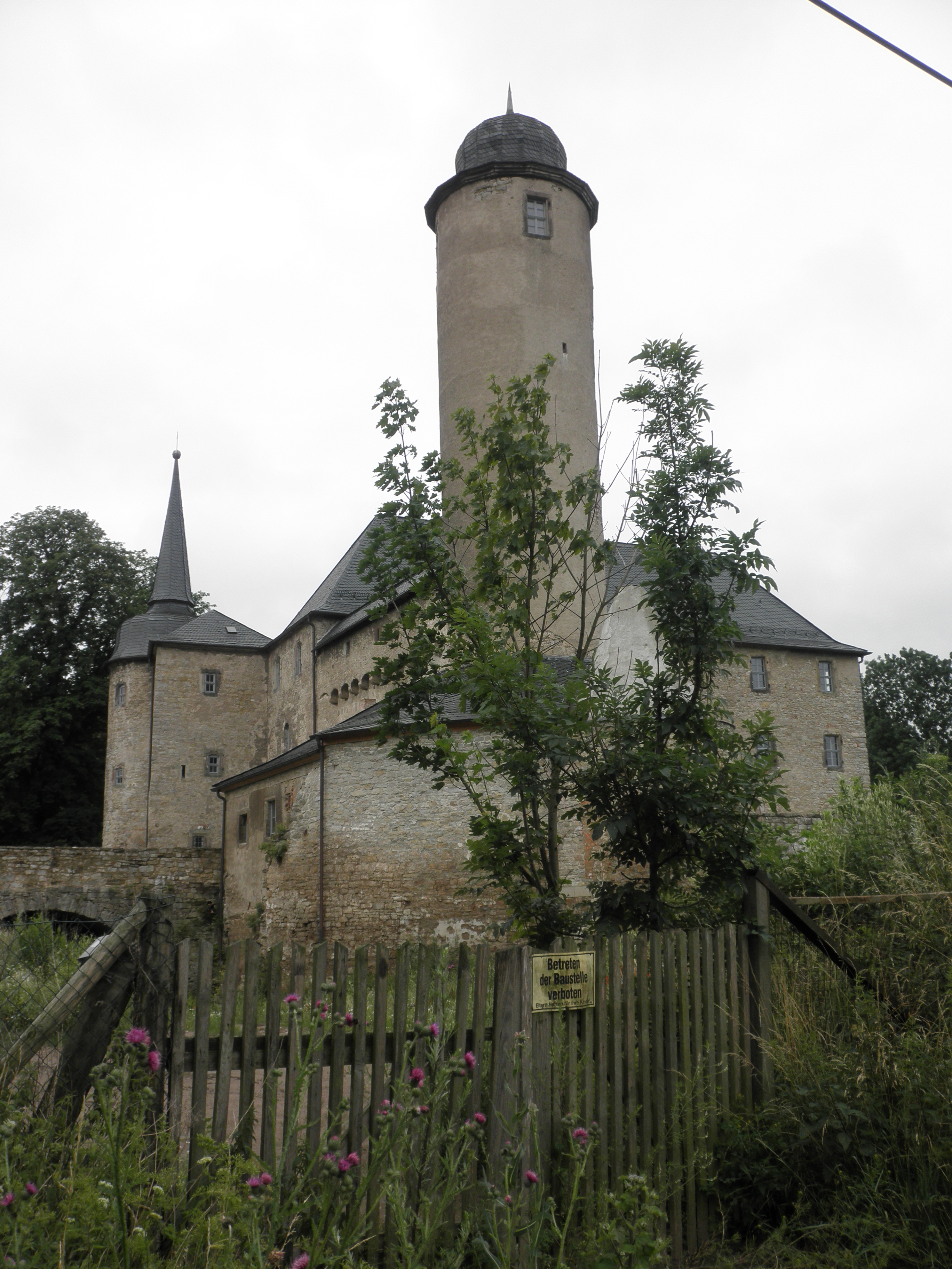 Denstedt (Thuringia) Castle